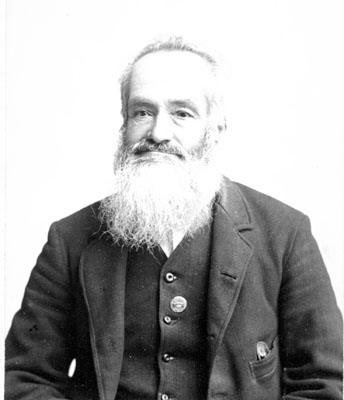 Sir William Muir, KCSI (27 April 1819 – 11 July 1905) Scottish Orientalist and colonial administrator.